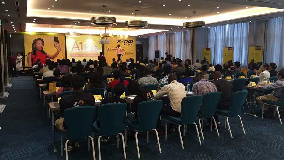 X-Tigi is now launching its new flagship smartphone A1 & A1 Plus in September and will have a Release Conference in Nairobi on 9/18/2017.